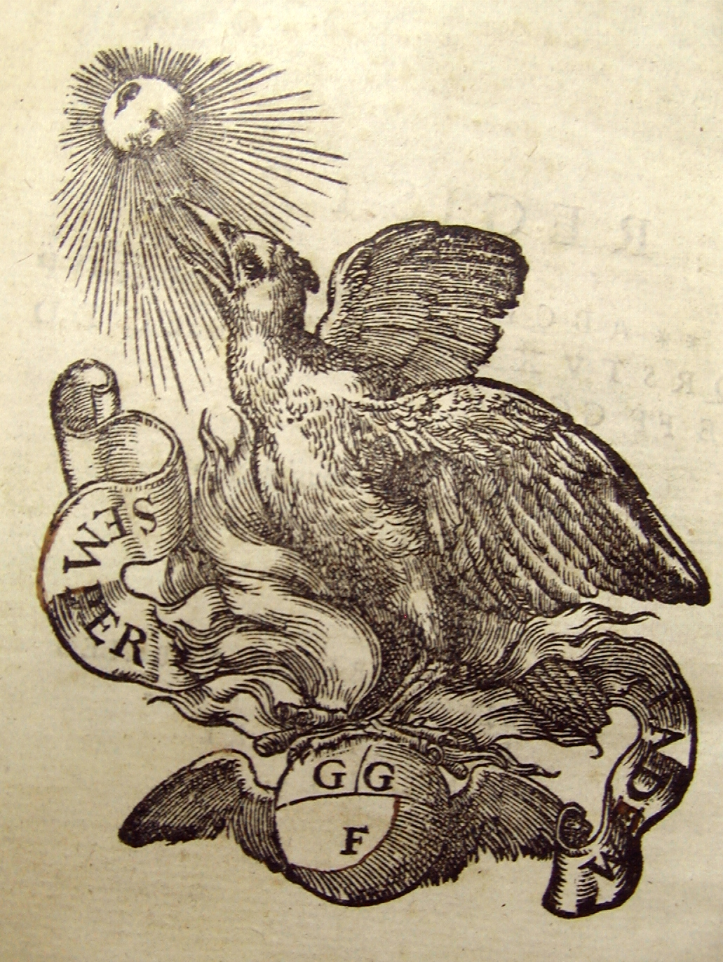 Woodcut printer's device or emblem used by Gabriele Giolito de' Ferrari e Fratelli in Venice, 1552.